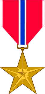 A Bronze star 1 ½ inches in circumscribing diameter. In the center thereof is a 3/16-inch diameter superimposed bronze star, the center line of all rays of both stars coinciding. The reverse has the inscription "HEROIC OR MERITORIOUS ACHIEVEMENT" and a space for the name of the recipient to be engraved. The star is suspended from the ribbon by a rectangular shaped metal loop with the corners rounded.